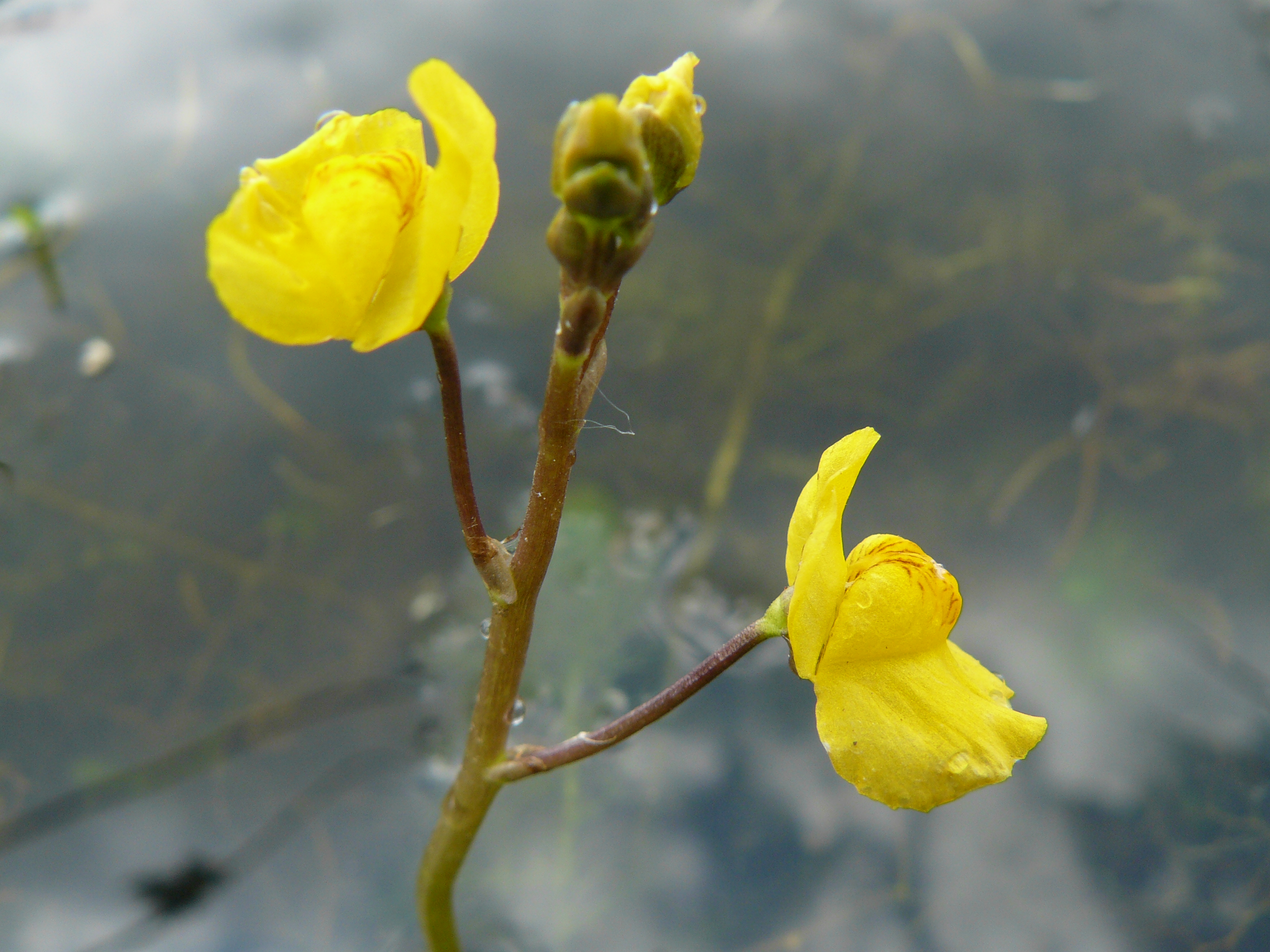 Utricularia australis in a lake of Auvergne, France